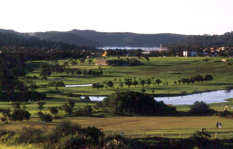 golf course, sydney